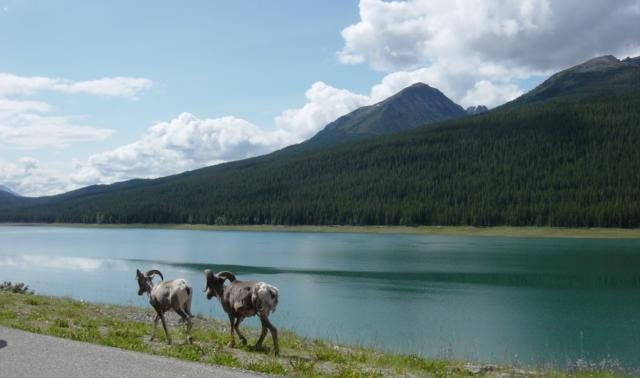 Bighorn sheep at Medicine Lake, Jasper National Park, Alberta, Canada creator: User:Jamieli